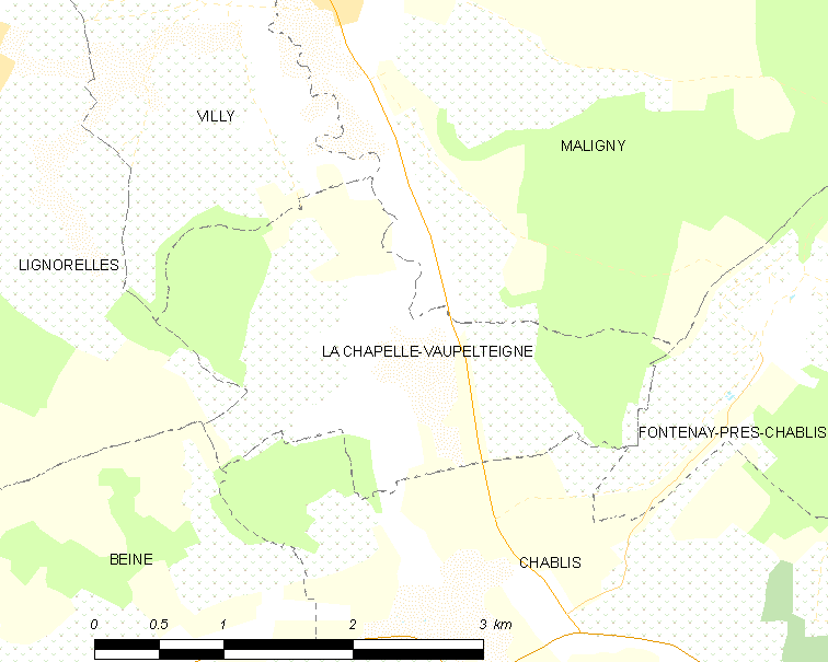 Map of French municipality La Chapelle-Vaupelteigne